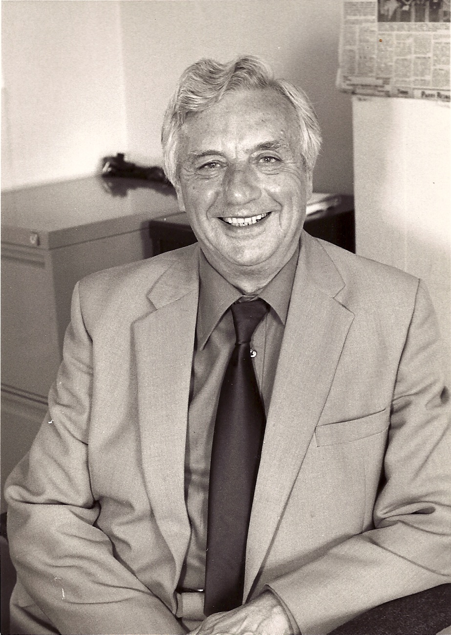 Portrait of Edwin Malindine